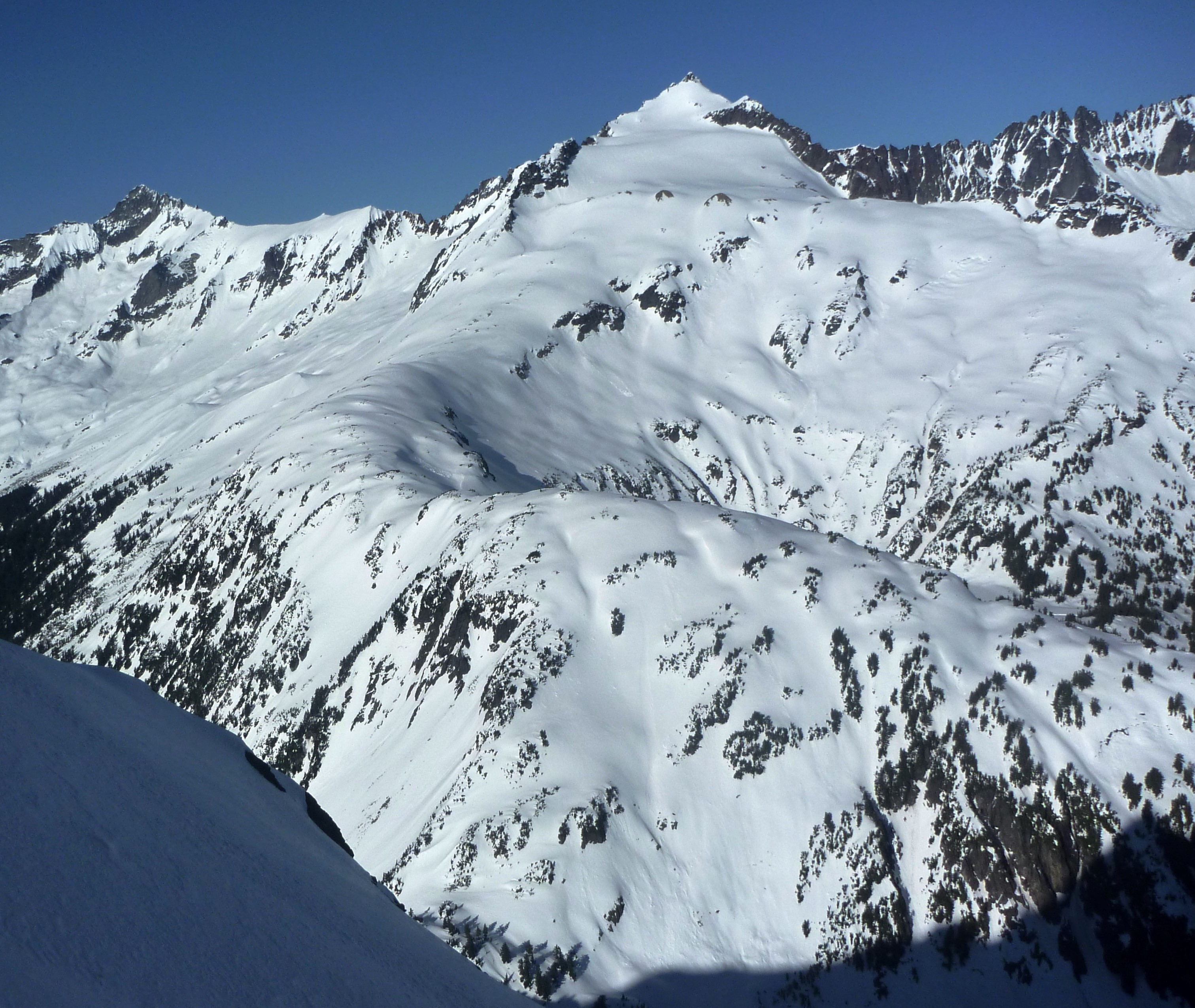 Sahale and Sahale Arm